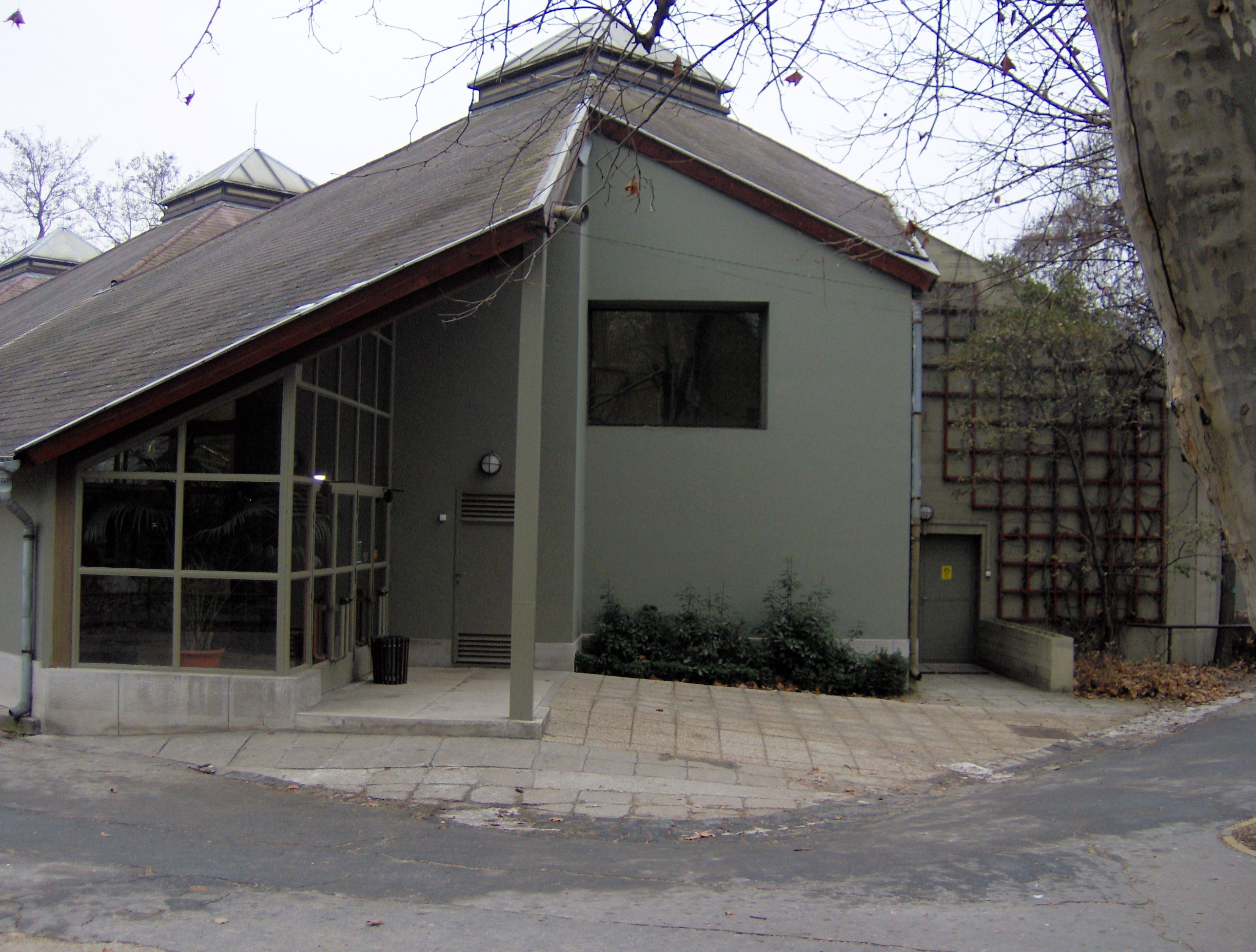 House of Great Apes at the Budapest Zoo